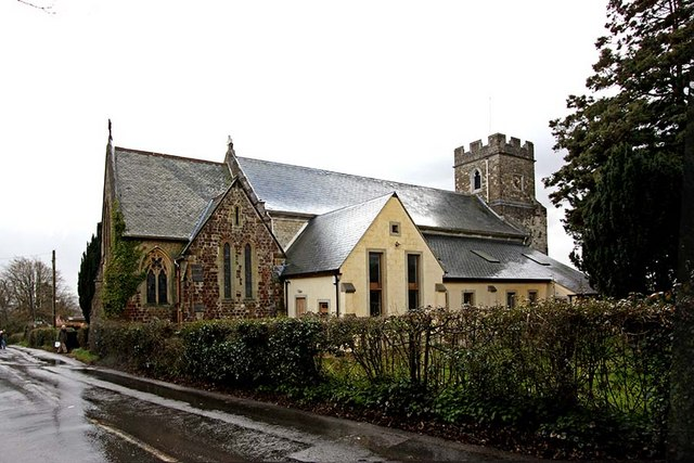 St George, Sevenoaks Weald, Kent